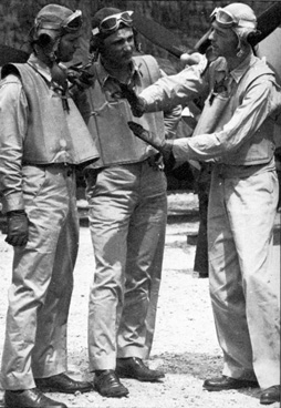 Lieutenant Commander Thach (right) uses his hands to teach fighter tactics to new Navy pilots at Pearl Harbor in 1942. Commander Thach originated the famous "Thach weave" technique that allowed the less nimble U.S. fighters to defend themselves against the agile Japanese Zero fighter.